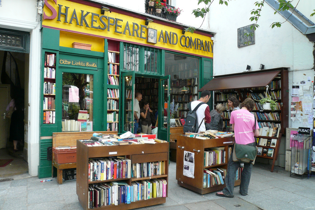 The Shakespeare and Company store is located in the 5th arrondissement of Paris, France.